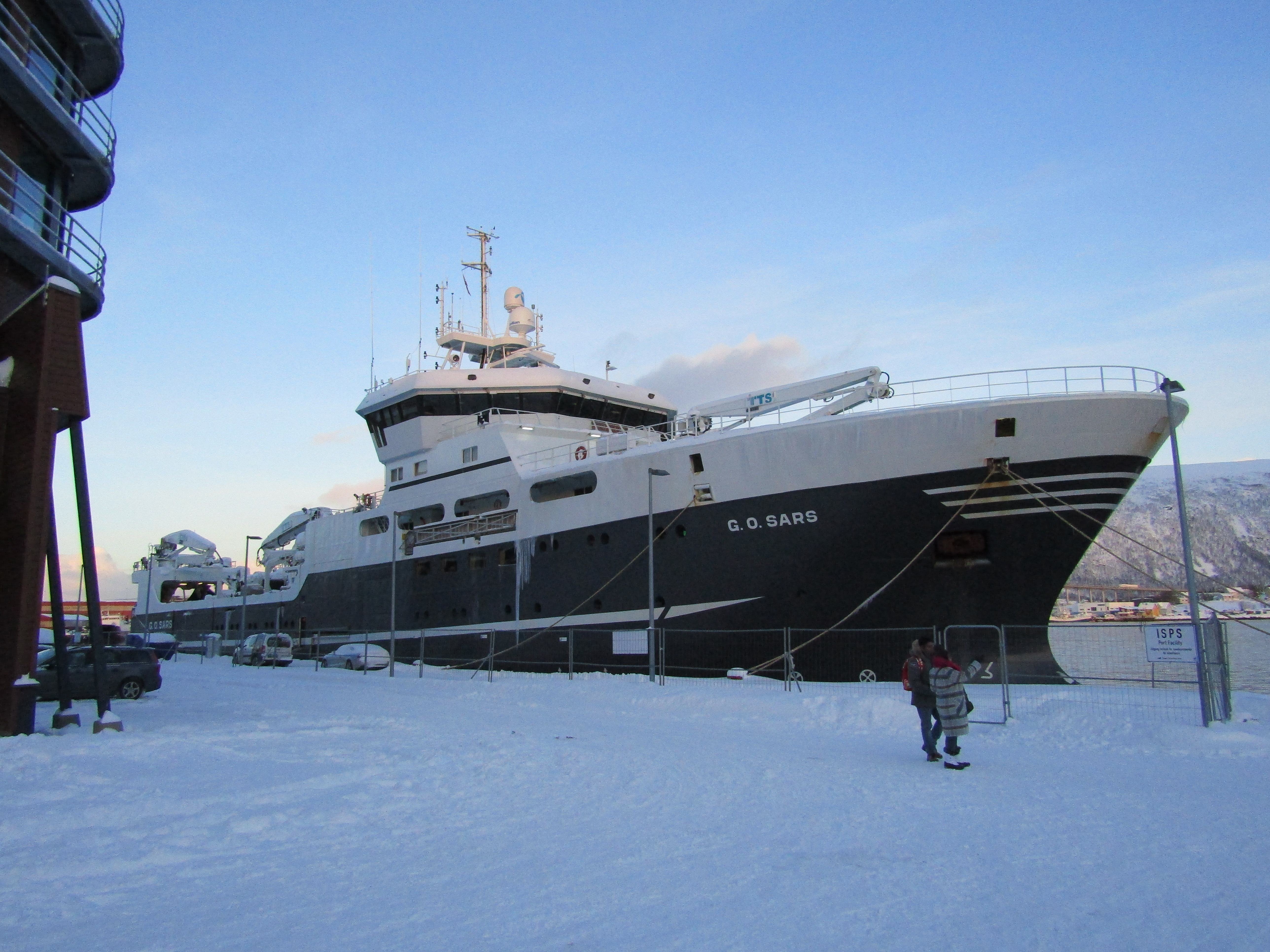 Day Five in Norway ... back on dry land, in Tromsø. After visiting the Arctic Cathedral, we walked back over the bridge and spent the afternoon exploring the rest of the city. From Wikipedia - (translated by Google) FF 'G.O. Sars' is a Norwegian research vessel, owned by the Institute of Marine Research in Bergen. The vessel is the third in the series with the same name, named after marine biologist Georg Ossian Sars. FF 'G.O. Sars' was built in 2003. It is 77 meters long and 4067 gross tons. The vessel was designed by Skipsteknisk A / S in Aalesund and built by special shipyard Flekkefjord Slipp & Machine Factory at a cost of 400 million. It has a diesel-electric motor 8100 kW. The boat makes only 1/100 as much noise as common research, in order to not disturb the measuring instruments. Bergen Skipsrevyen named it the Ship of the Year in 2003. FF 'G.O. SARS' is specially equipped for cruises in research on fish stocks, environmental surveys and acoustic check formulas. The ship has six winches for lowering until 6000 meter cables in deep water, measuring and sampling depths. One of the winches are equipped with fiber optic cable that can transmit large amounts of data from the depths to the surface. Sounder can chart fish in all depths and seabed up to 150 meters into the seabed crust. Also, there may be up to 25 meters deep core samples from the seabed. The boat can also draw larger trawlers and other special vessels, as well as towing sonar and other acoustic devices. The robot Argus Abyss is an ROV which runs to 5000 meters depth, while Aglantha only runs to 2000 meters. It participated in summer 2004 at the Mar-Eco that went along Mid-Atlantic Ridge between Iceland and the Azores, where they together with longline fishing boat M / S 'Loran' so out underwater hotspots (volcanoes). In 2007 it took part in the project Antarctic Krill and Ecosystem Studies (AES), an expedition to the Southern Ocean.